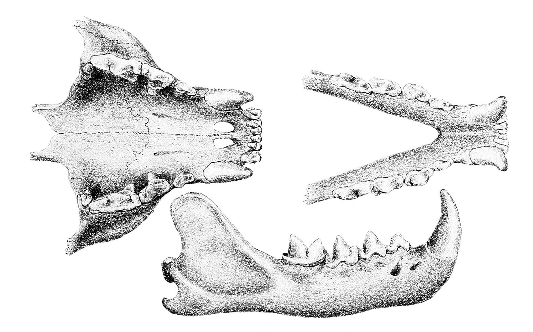 Cryptoprocta ferox dentition (Fossa (animal))